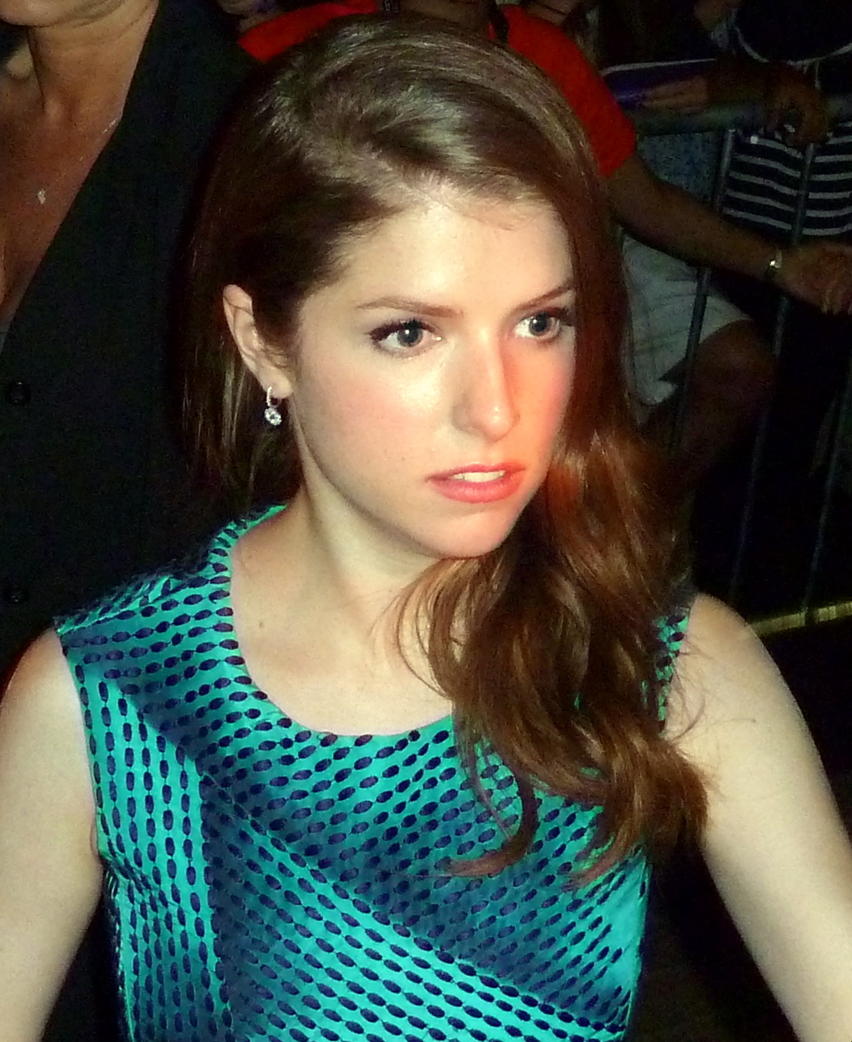 Anna Kendrick at the Toronto International Film Festival 2011.